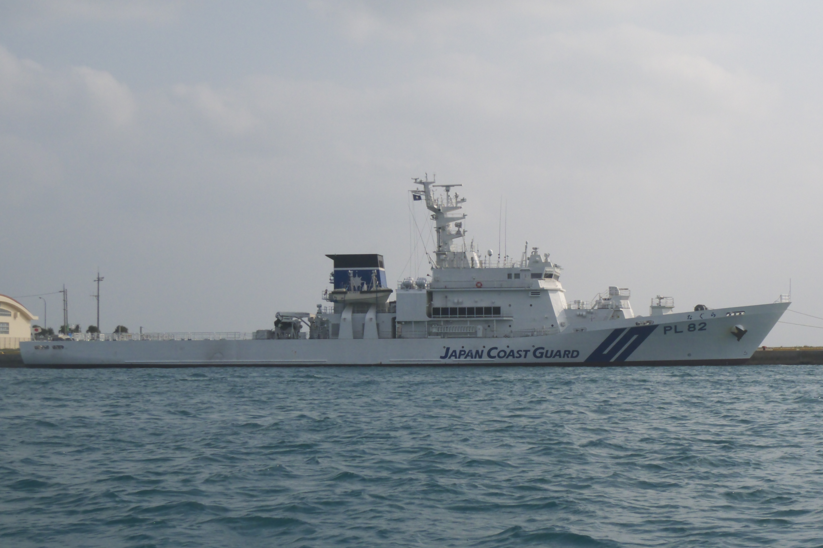 Japan Coast Guard patrol vessel PL82 Nagura at the Port of Ishigaki